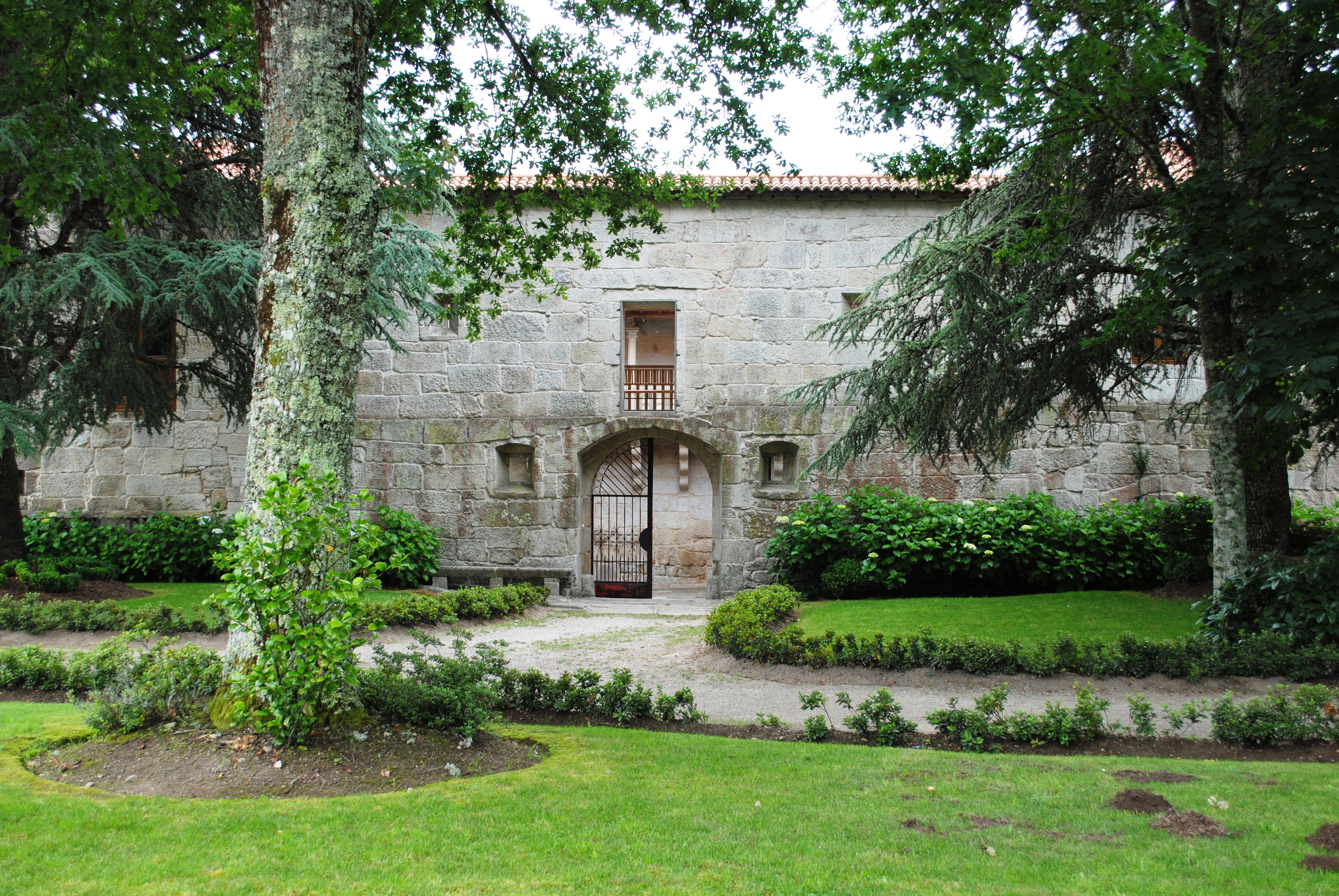 See title.